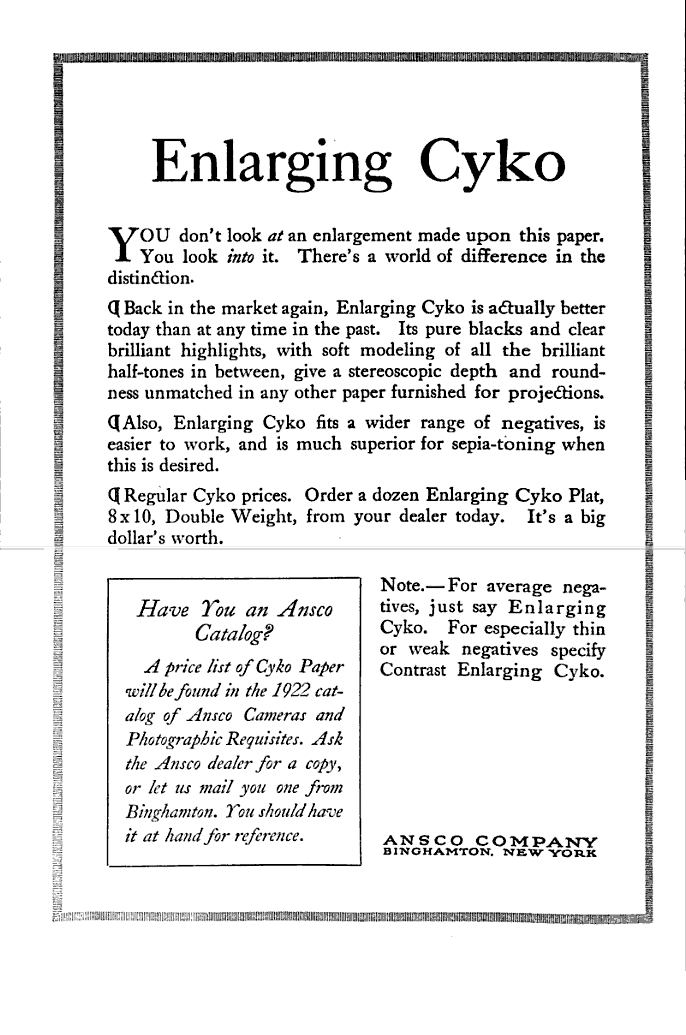 Advertisement for Ansco products from a 1922 magazine, public domain: Cyko Photographic paper